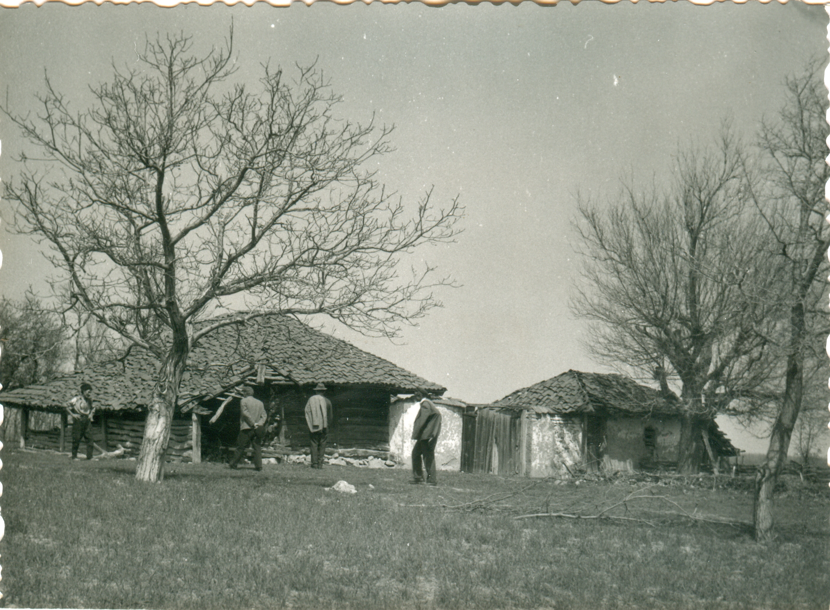 The farm of Radivoje Zivanovic Baja at Lotovi near Salas where the Krajina Partisan Detachment was hiding in 1941. Srpski (latinica): Pojata Radivoja Živanovica Baje na mestu Lotovi kod Salaša gde se skrivao Krajinski partizanski odred 1941.